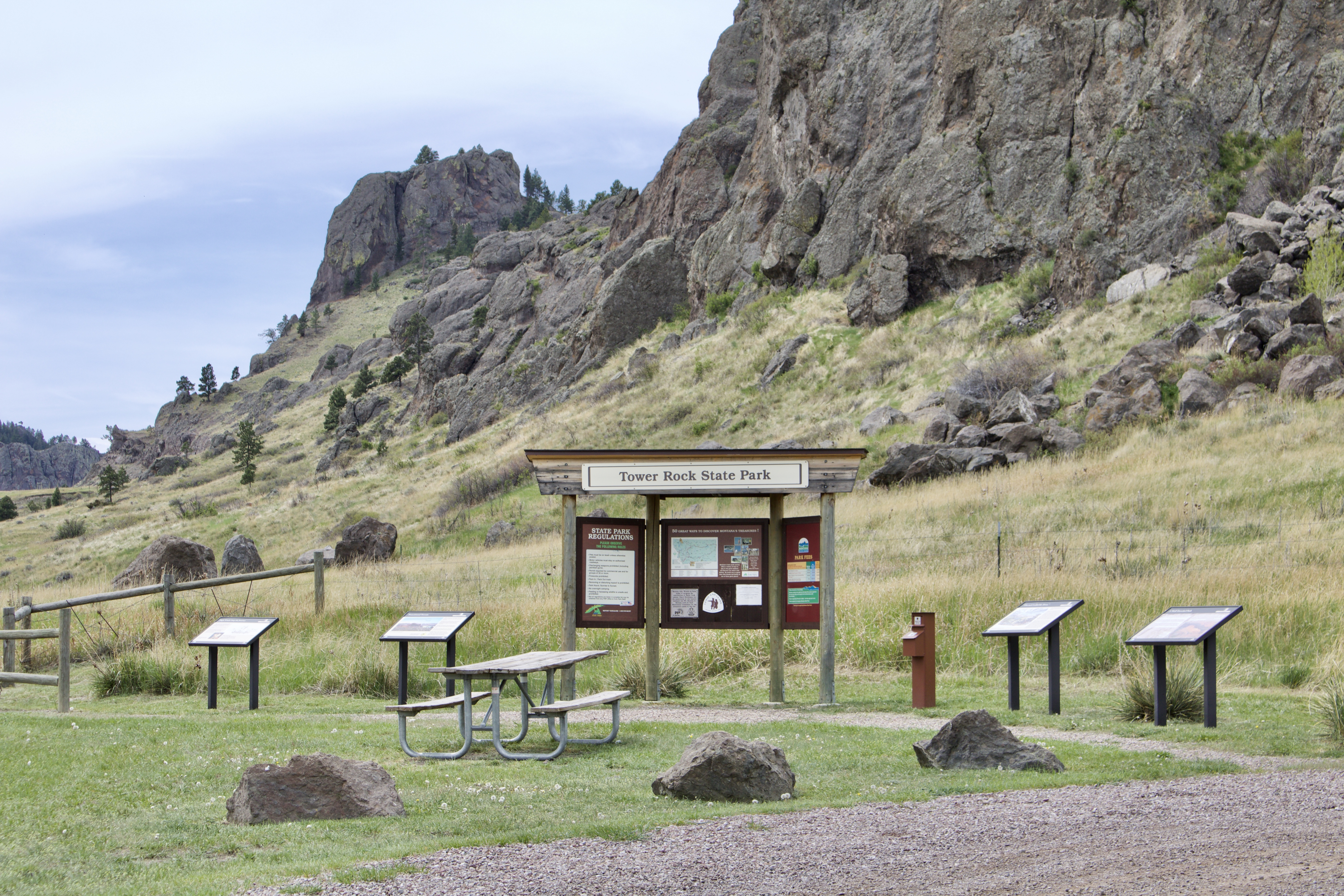 Tower Rock State Park, Cascade County, Montana. Image taken from north end of formation, facing roughly due south/southwest, showing interpretive signs and kiosk